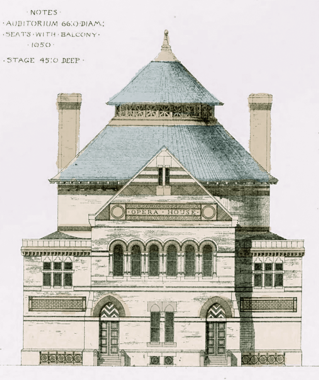 The architectural rendering of the front face of the Holyoke Opera House, with approximate colors from hand-painted copies.